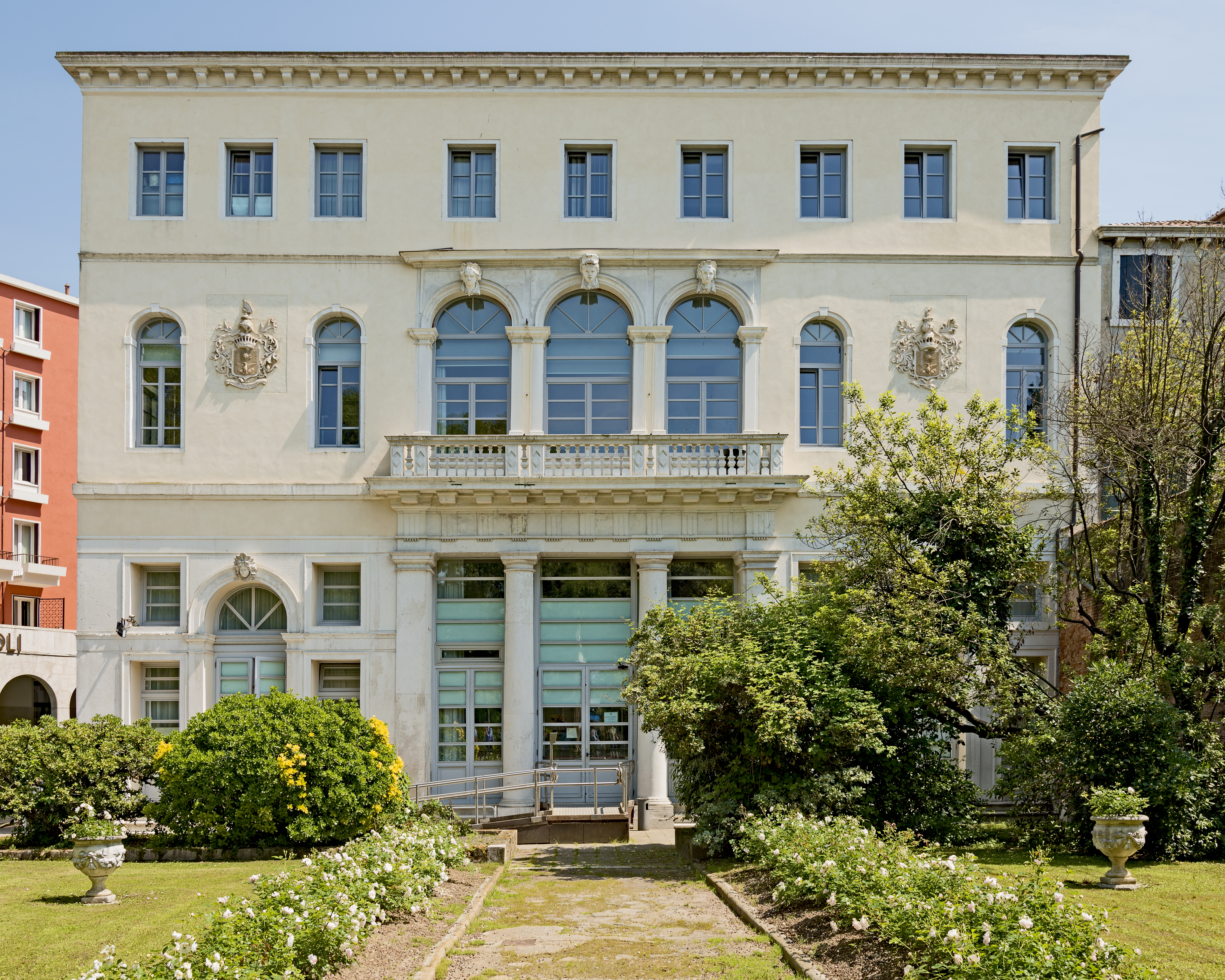 Palace Foresti Papadopoli in Venice. Facade on Papadopoli garden.